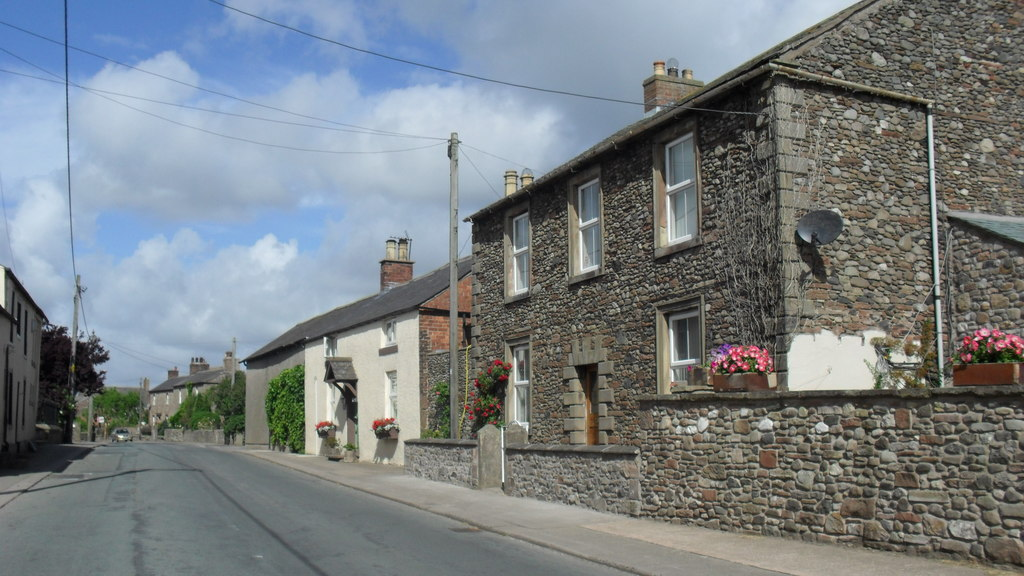 Kirkbampton in Cumbria, near to Kirkbampton, Cumbria, Great Britain. Wonderful old houses line the street in the small village.